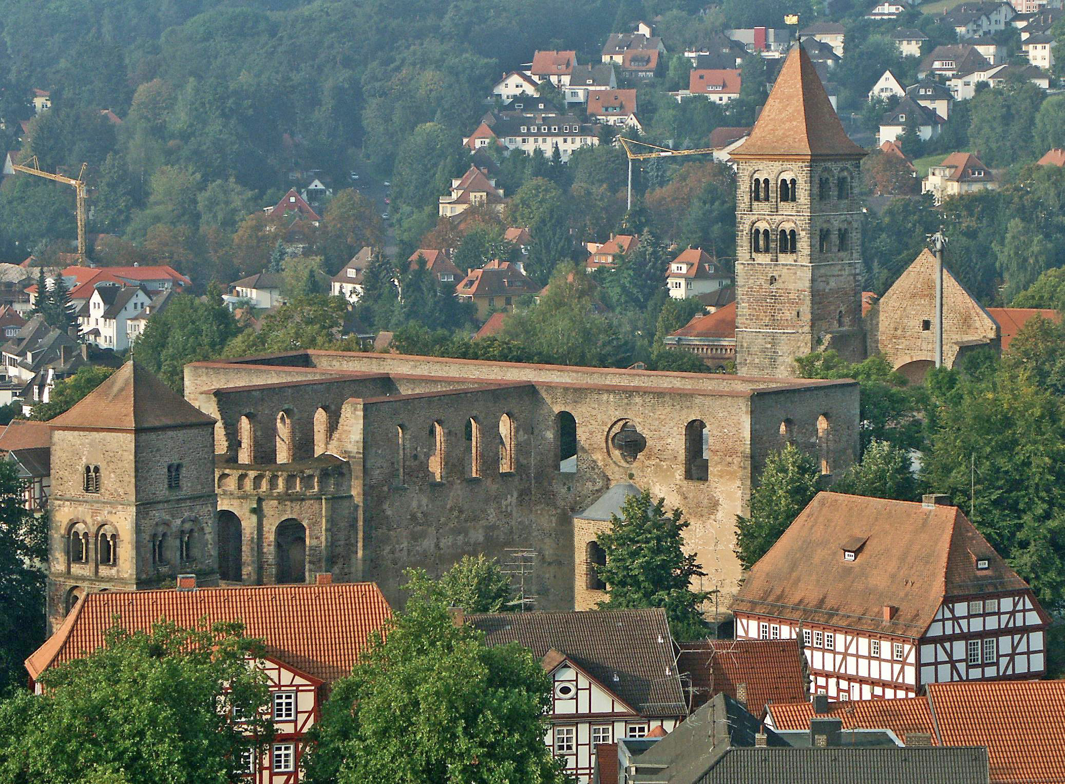 View of the Bad Hersfeld Cathedral from the spire of the Old Town church